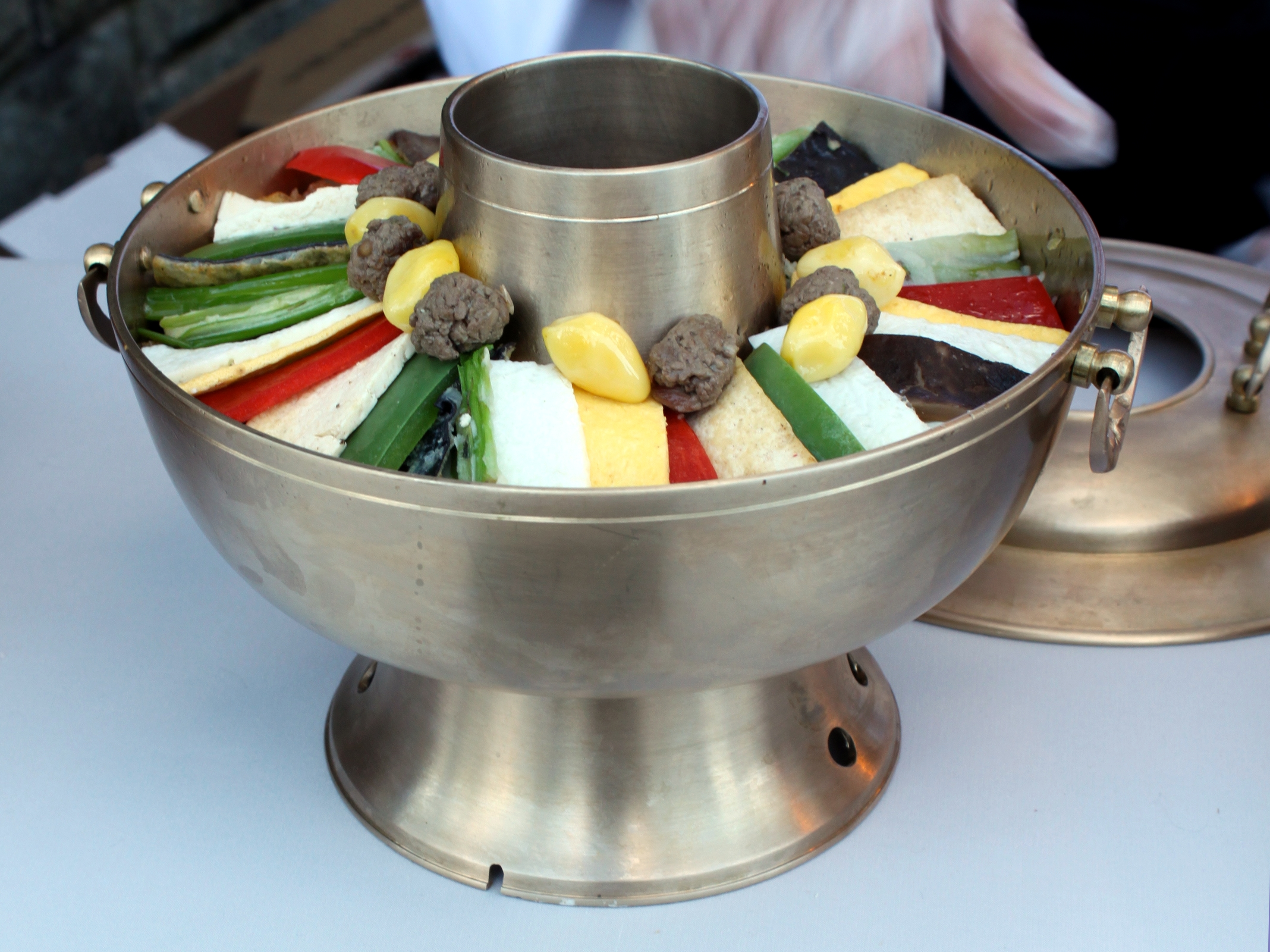 Sinseollo, Korean royal casserole.